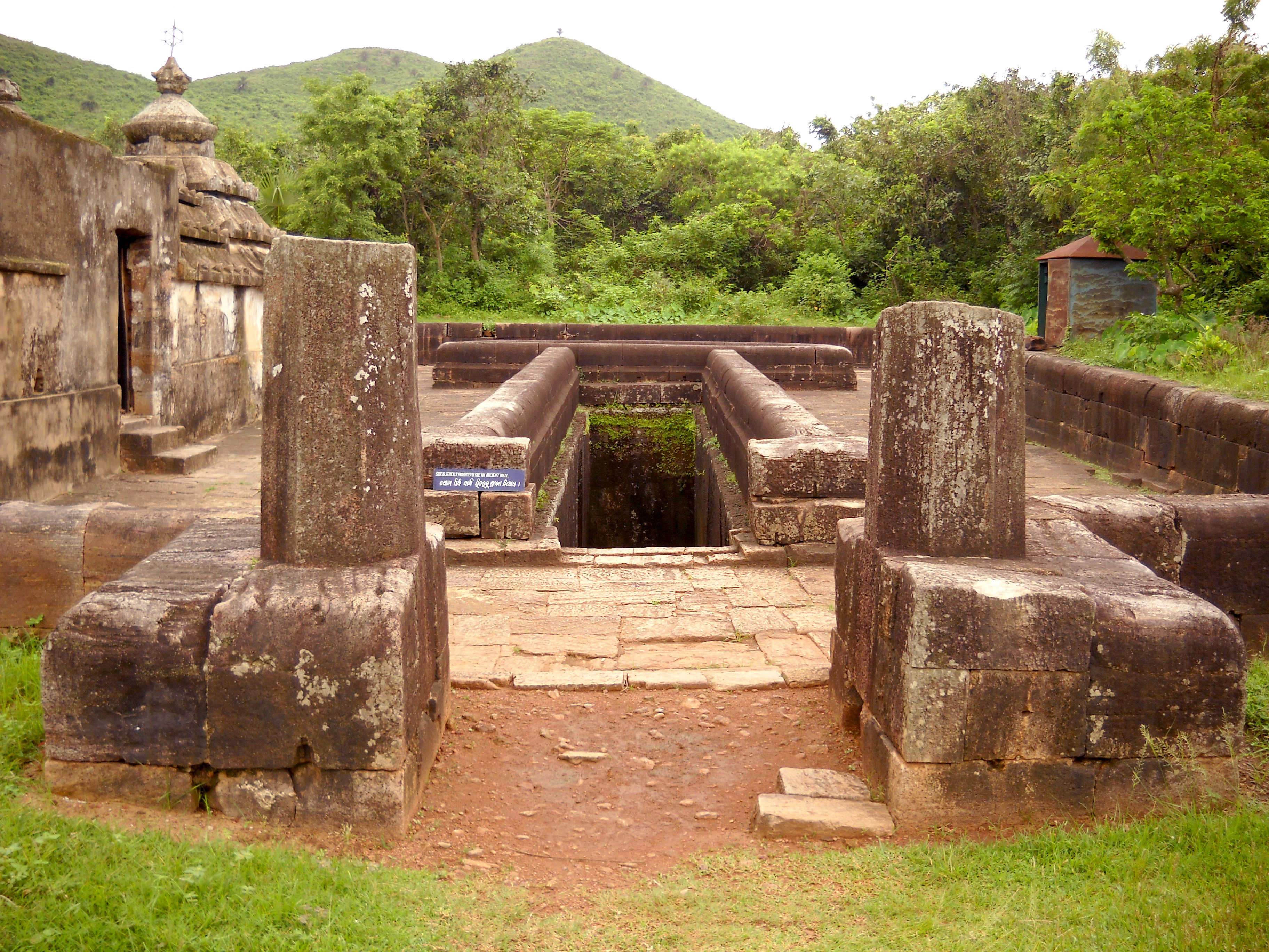 Buddhist site (excavated)